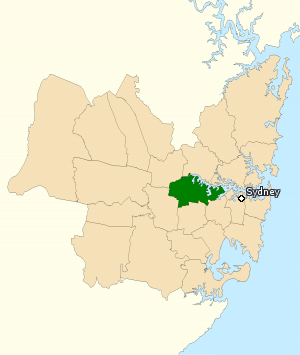 This image incorporates data that is: © Commonwealth of Australia (Australian Electoral Commission) 2009 Division of Reid 2010